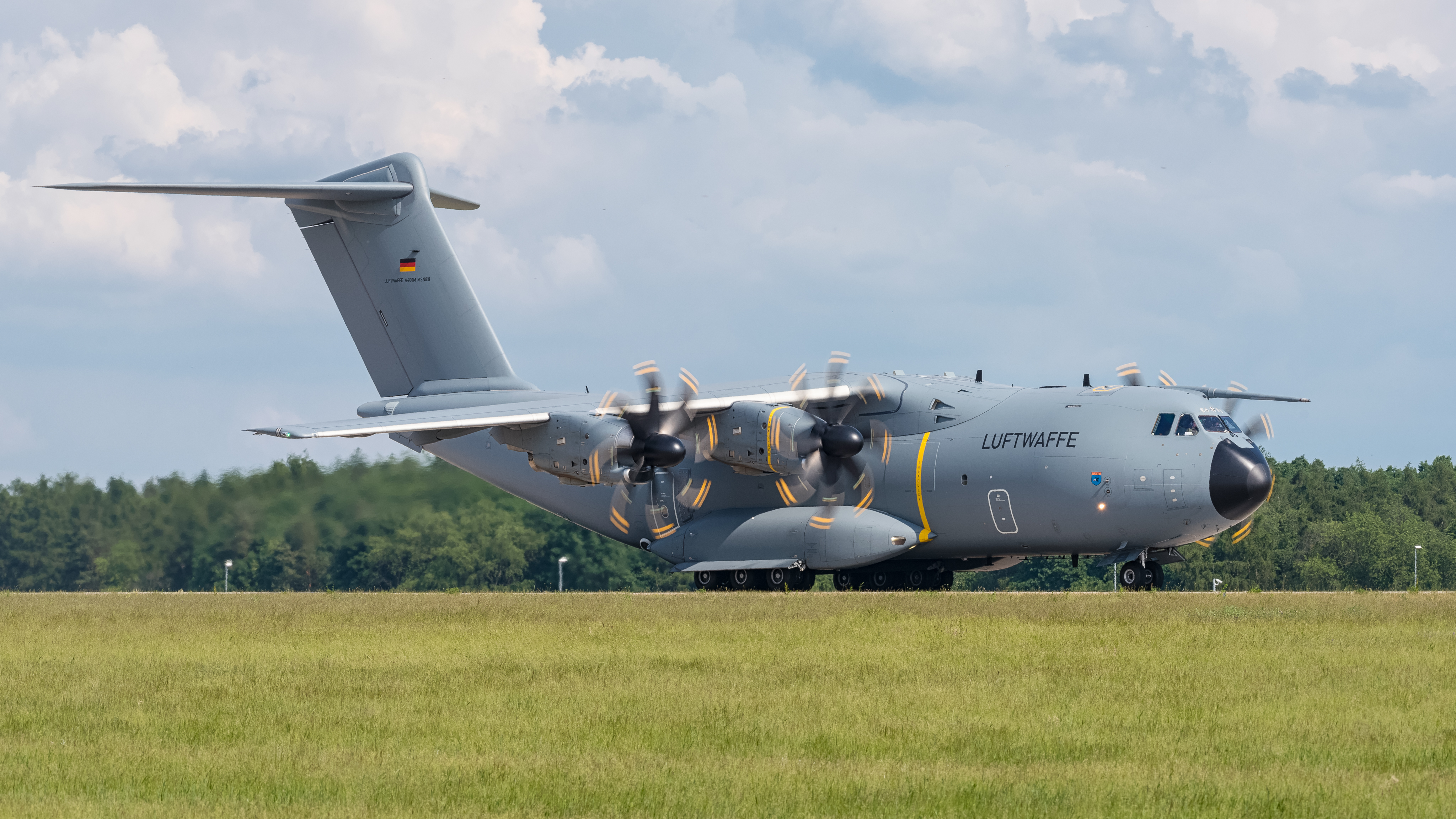 German Air Force Airbus A400M (reg. 54+01, cn 018) at ILA Berlin Air Show 2016.